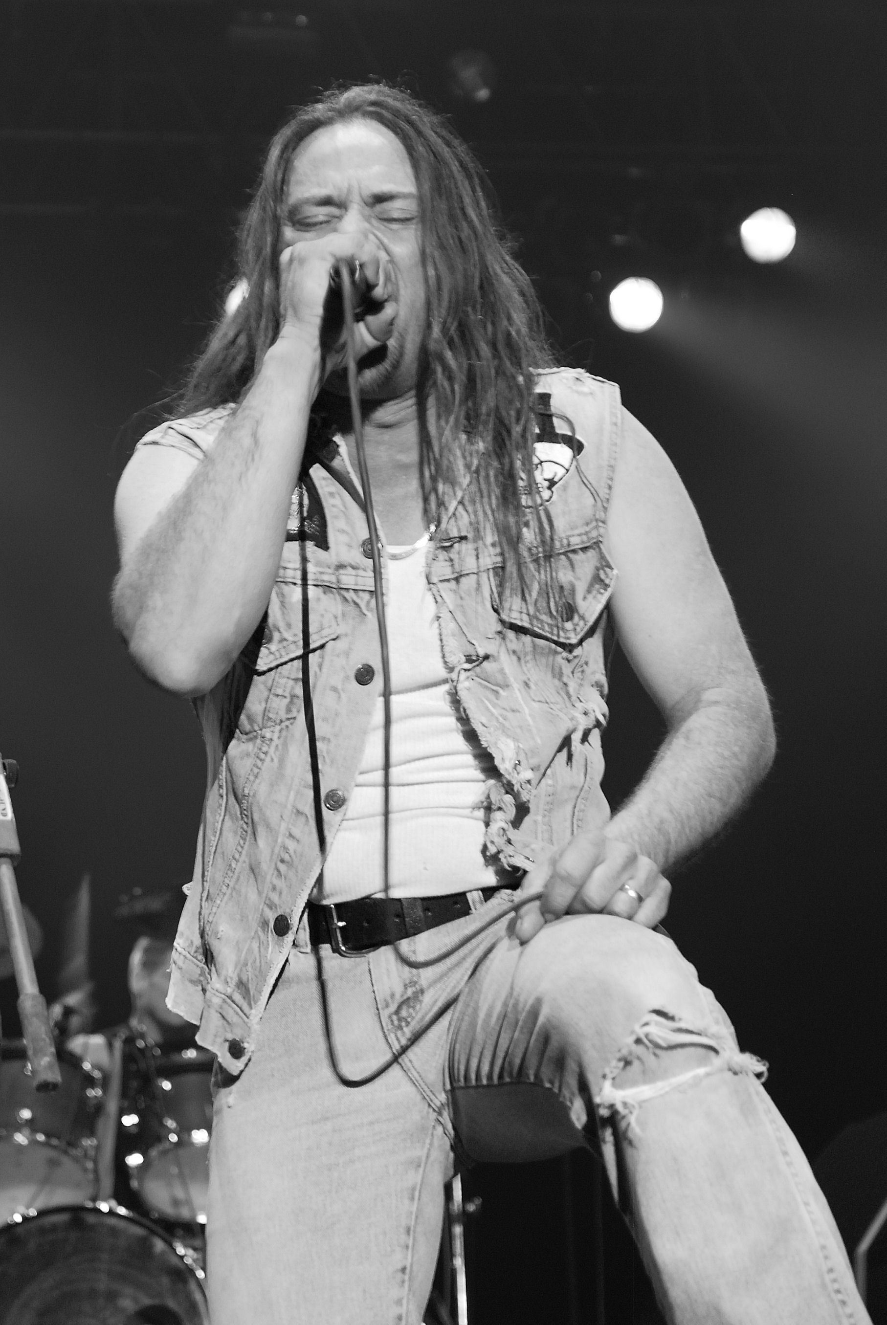 Eric A.K. from Flotsam&Jetsam during Metalmania 2008 festival